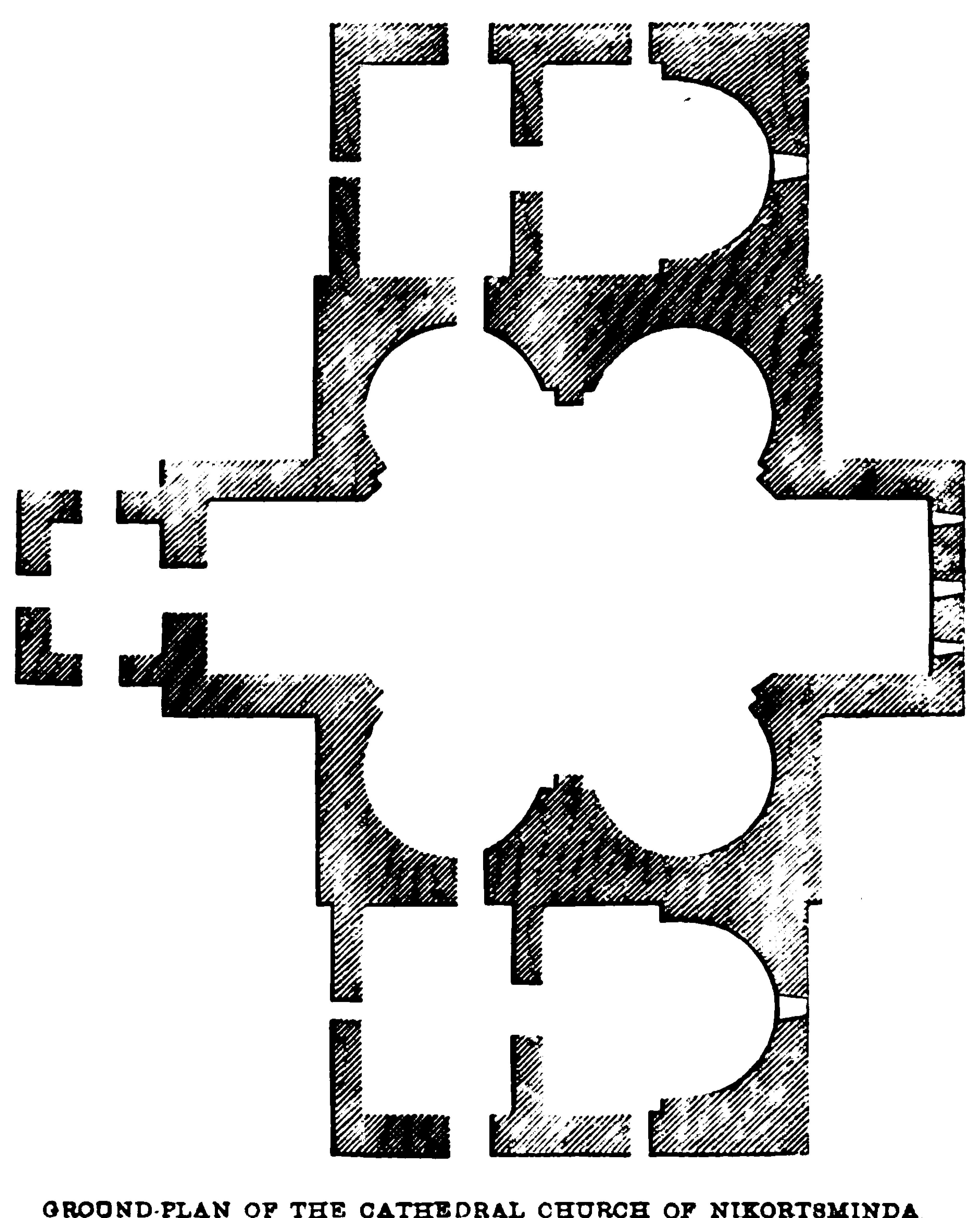 A history of the Holy Eastern Church: General introduction, Volume 1